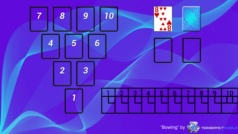 This image is a screenshot of what the solitaire game "Bowling" should look like.